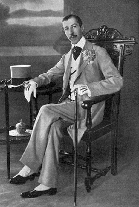 Henry Cyril Paget, 5th Marquess of Anglesey (1875–1905)